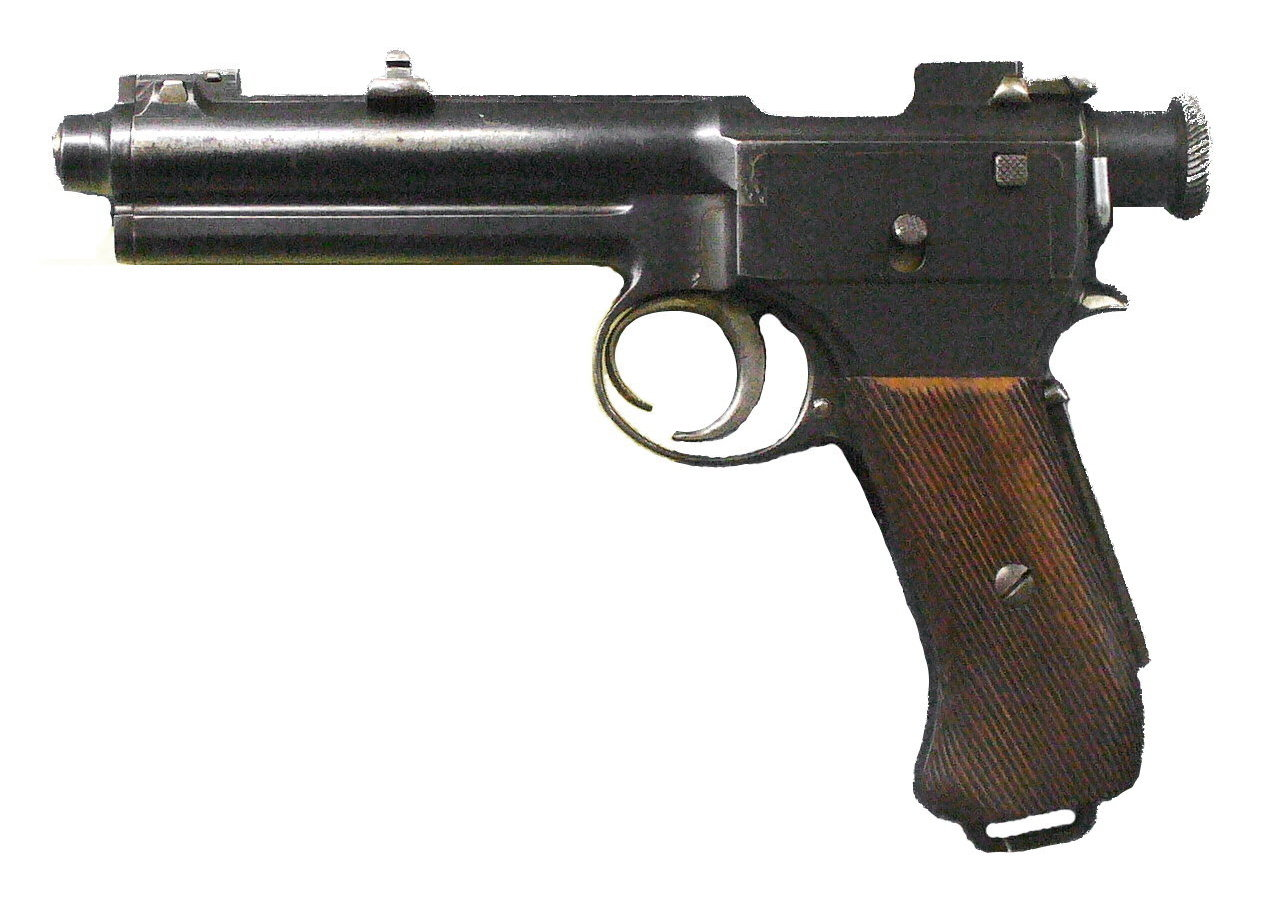 Roth-Steyr 1907, Austro-Hungarian self-loading pistol